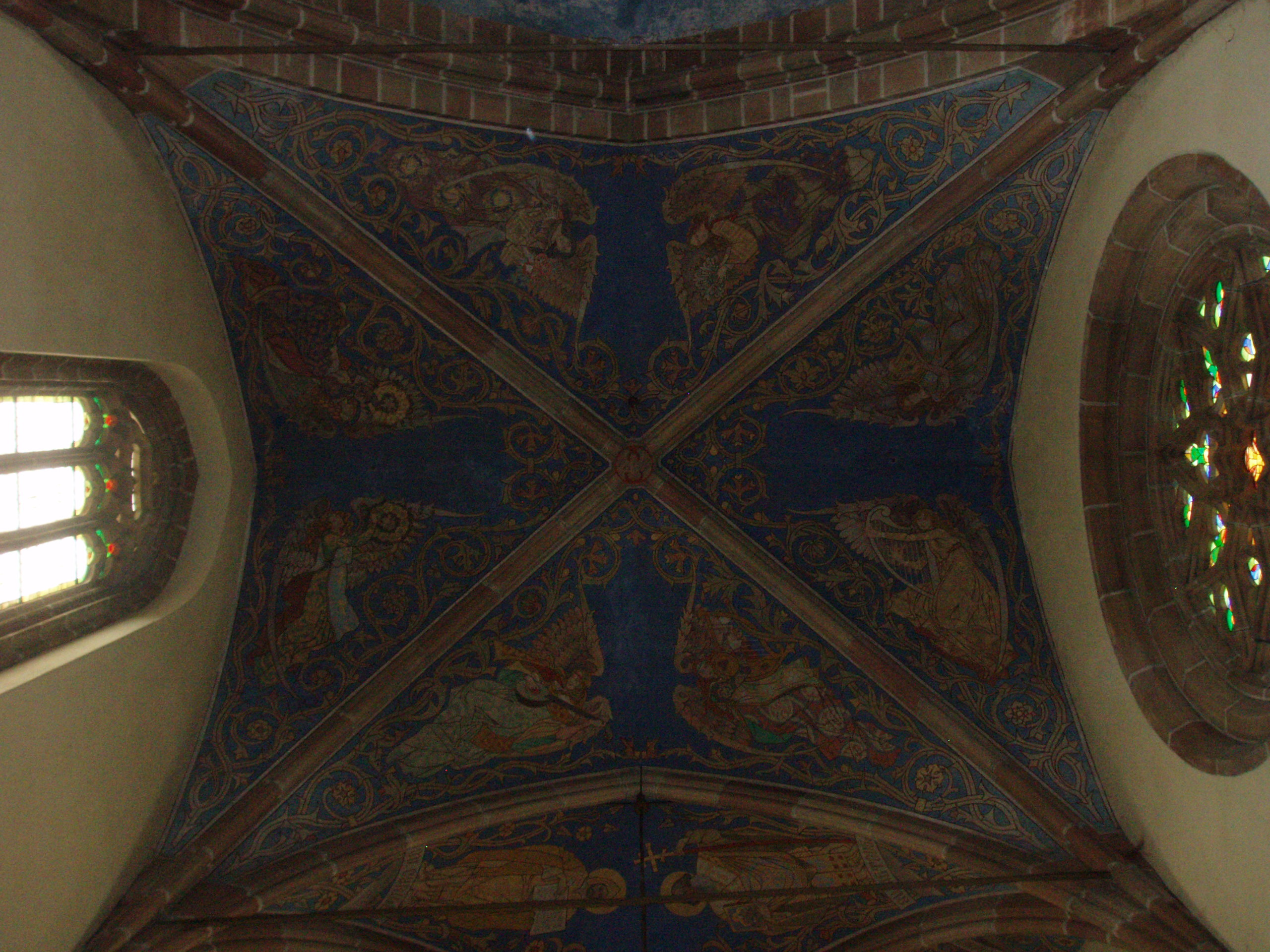 Klenba presbytáře - cherubíni hjrající na hudební nástroje